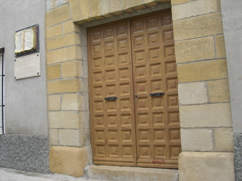 Fachada casa escritora